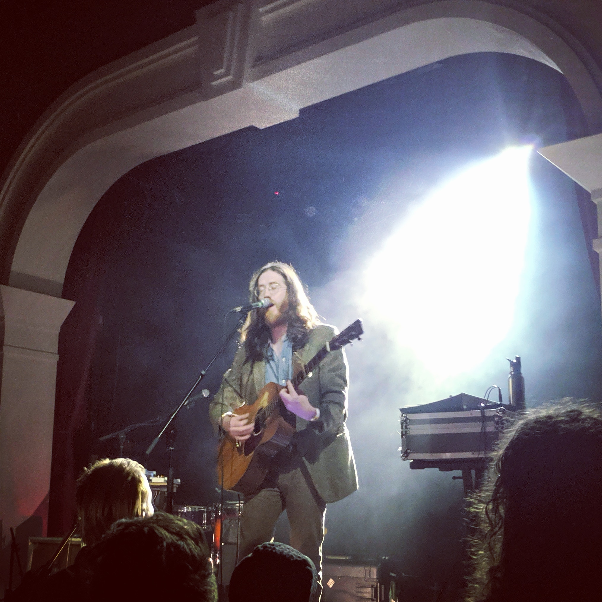 Okkervil River's Will Sheff performing solo at the Great Hall in Toronto in 2019